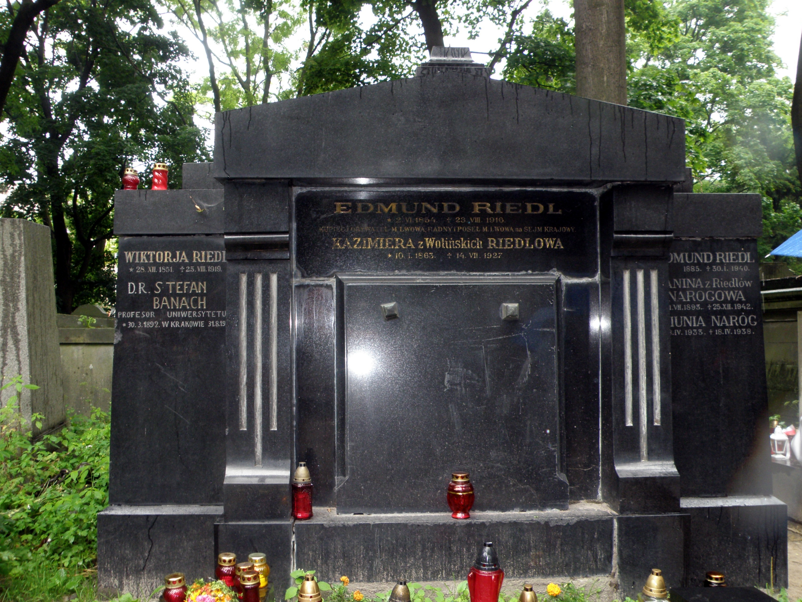 Lviv- Lychakiv Cemetery - Tomb of Riedl Family and Stefan Banach - 1892-1945 -great Polish mathematician Stefan_Banach